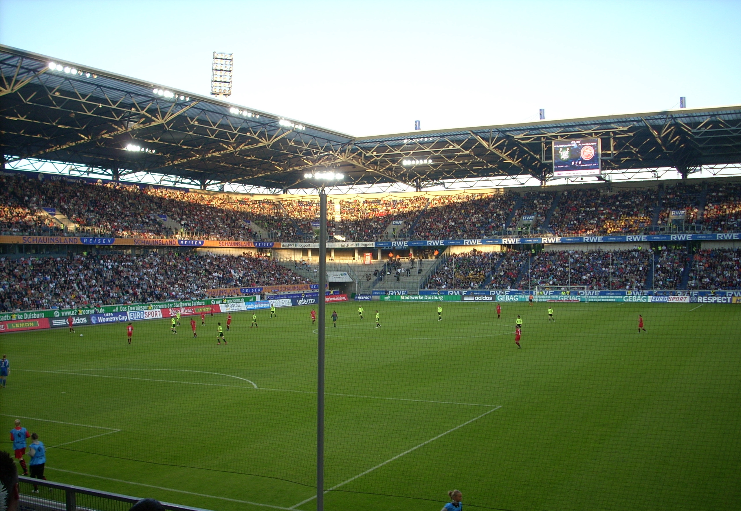 UEFA-Women's-Cup-Final between FCR 2001 Duisburg and Swesda 2005 Perm in the MSV-Arena in Duisburg (Germany)